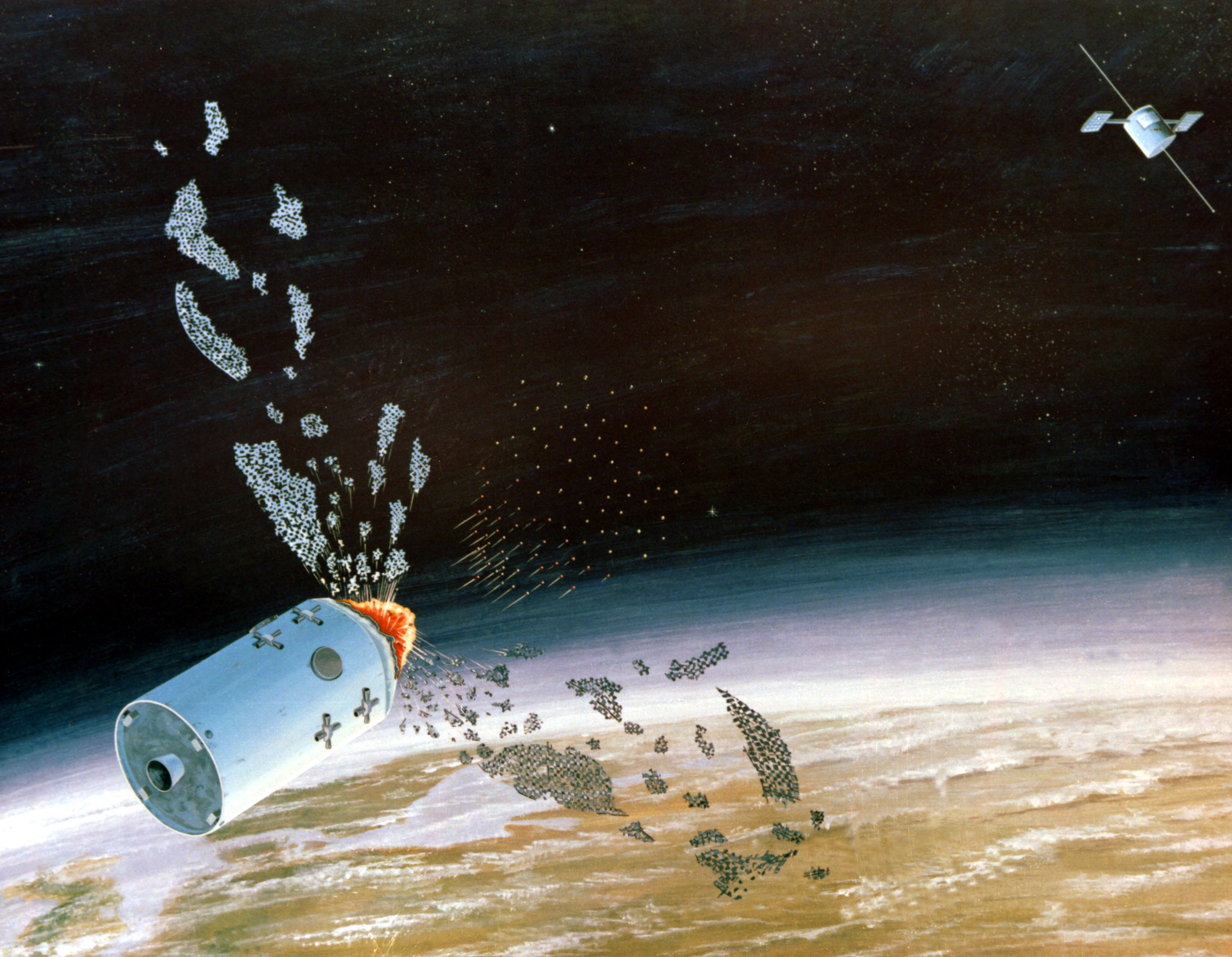 Artist concept an anti-satellite (ASAT) weapon, SDI